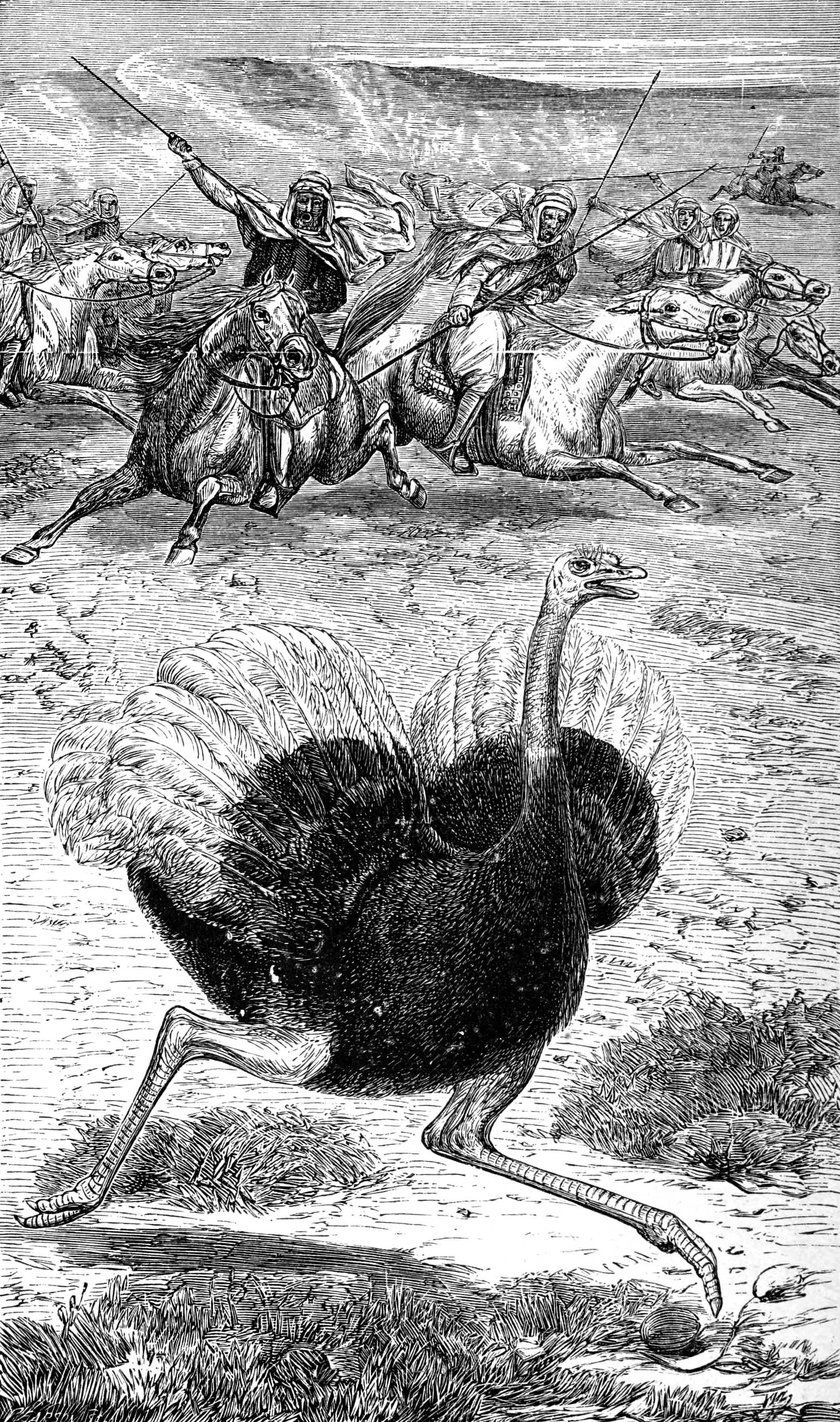 Ostrich hunt in Palestine. From Wood’s Bible Animals, illustrated by Keyl, Wood and E. A. Smith; engraved by G. Pearson, by the Rev. J. G. Wood, M.A., F.L.S., Etc., J. W. Lyon & Co., Guelph, Ontario, 1877.